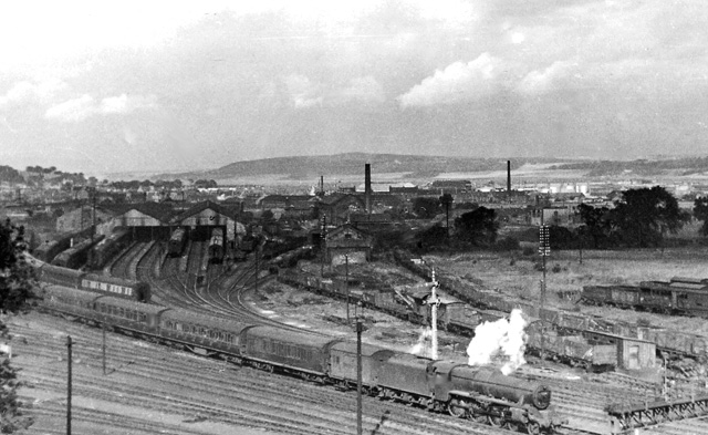 Inverness Railway Panorama. View NW from the main road above the east end of the Inverness Railway Yards and Station, over the firth to Ord Hill - there was no Kessock Bridge in 1948. The passenger train, headed by a Stanier Class 5 4-6-0, has just arrived from the Far North Line. As was the practice, it has run over the triangle past the Terminus and is about to reverse into a platform. It was typical Scottish weather and unfortunately a cloud darkens the middle distance, but the Station can be distinguished on the left. Note the large gantry of signals on the right. [This was one of my earlier photographs and is of indifferent quality, but is offered for its interest].